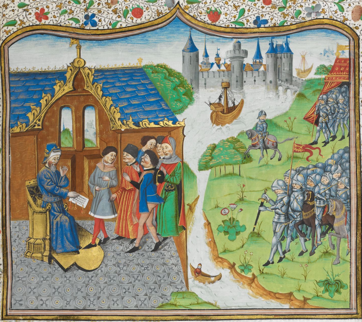 Edmund of Langley remonstrating with the King of Portugal, Ferdinand I.